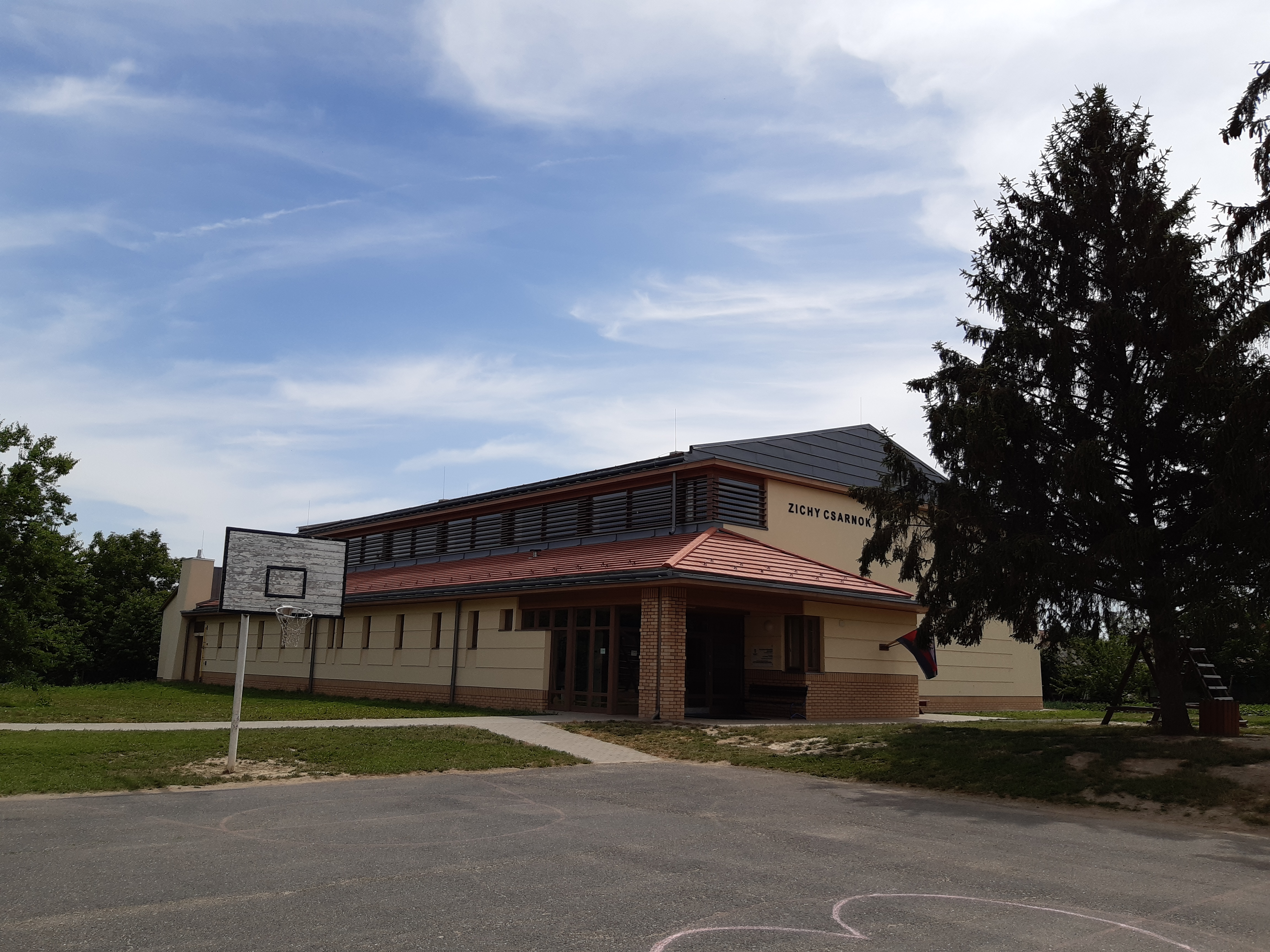 Zichy Gym in Zichyújfalu (2019).